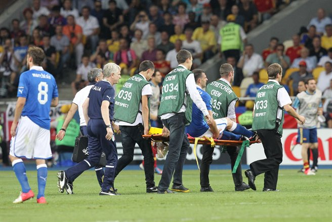 Thiago Motta injury at Euro 2012 final Spain-Italy